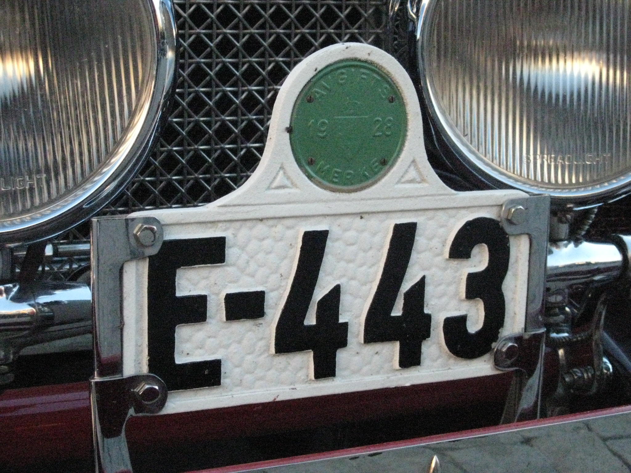 Norway automobile license plate 1929-1942. Front plate with tax disc